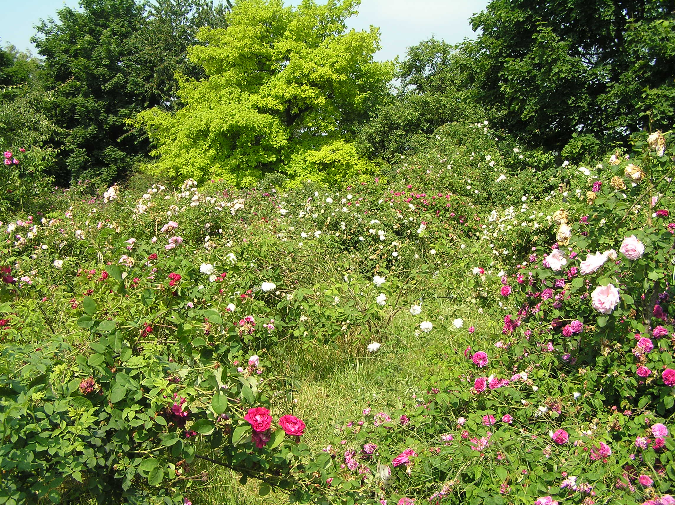 Hill of roses, Karben, Germany